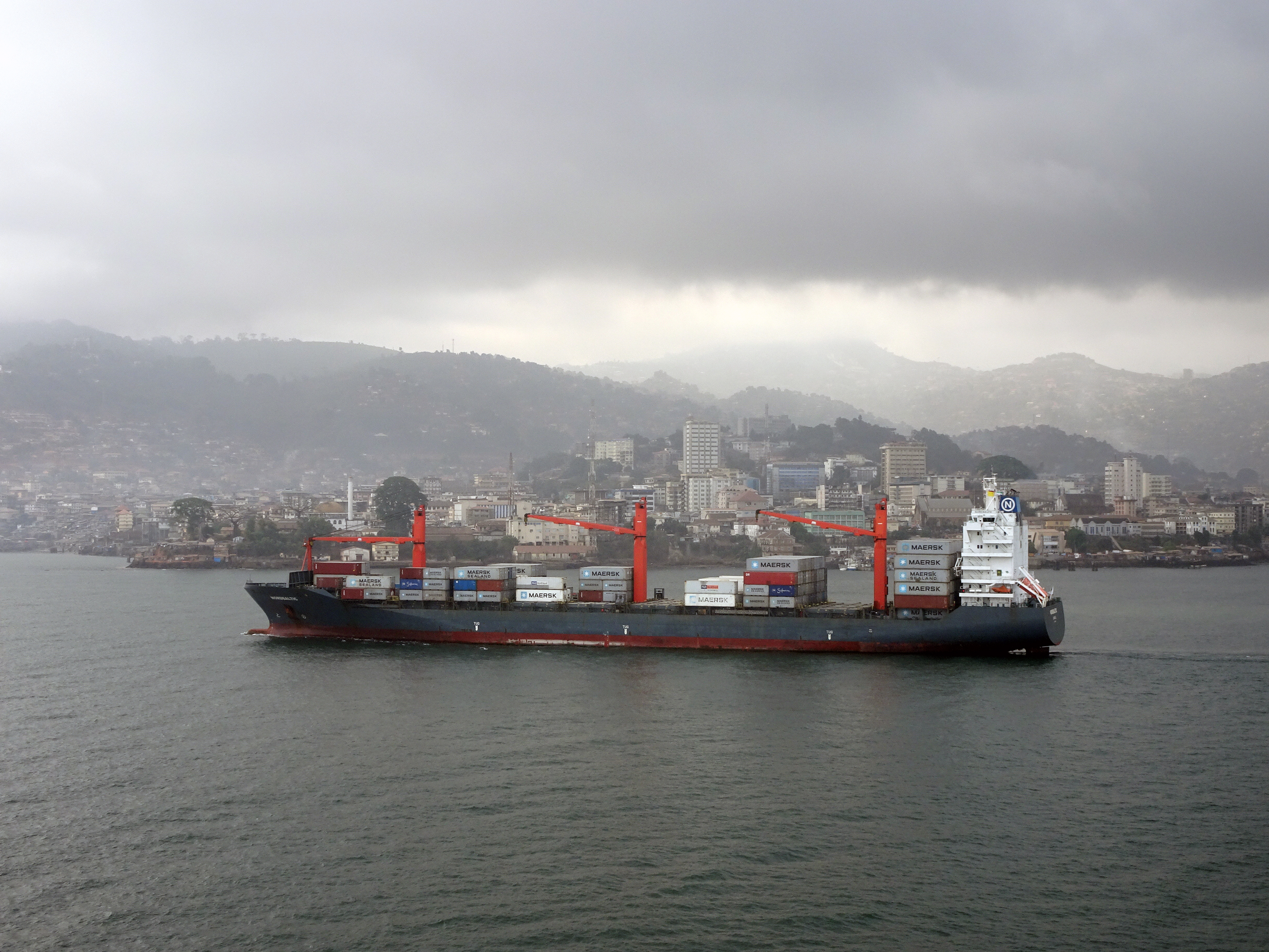 Container ships entering the port of Freetown Sierra Leone seen from the sea